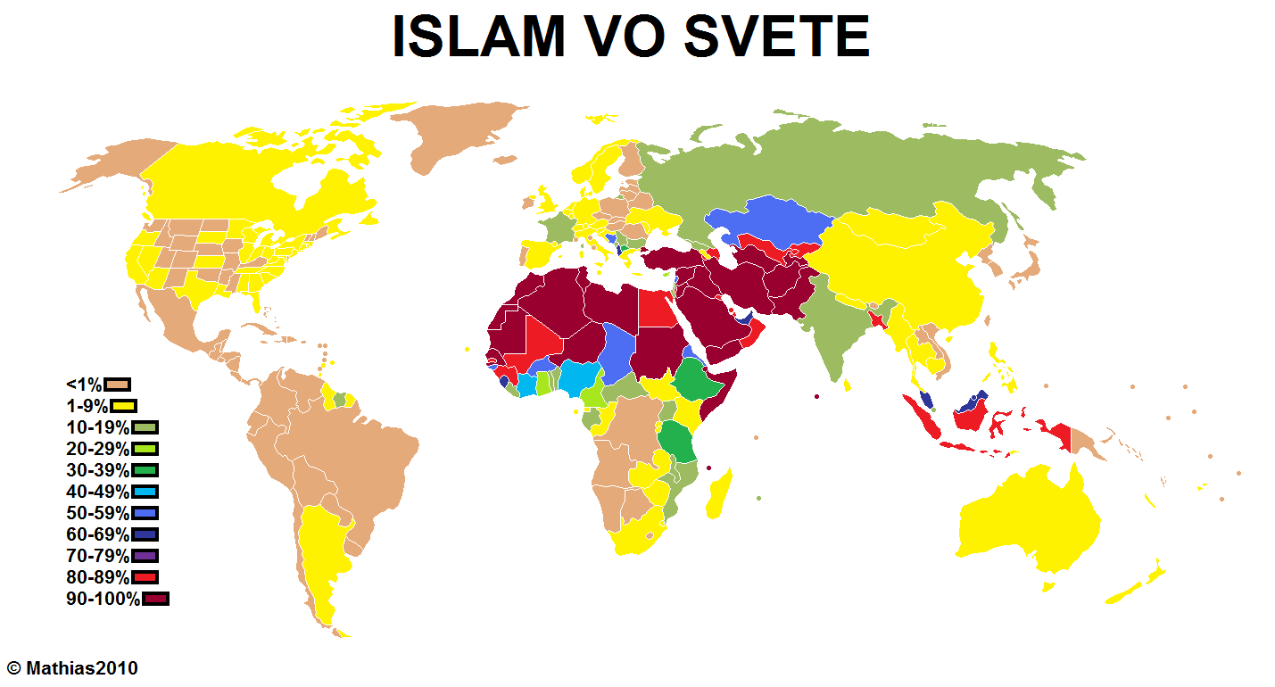 Muslim in the world.